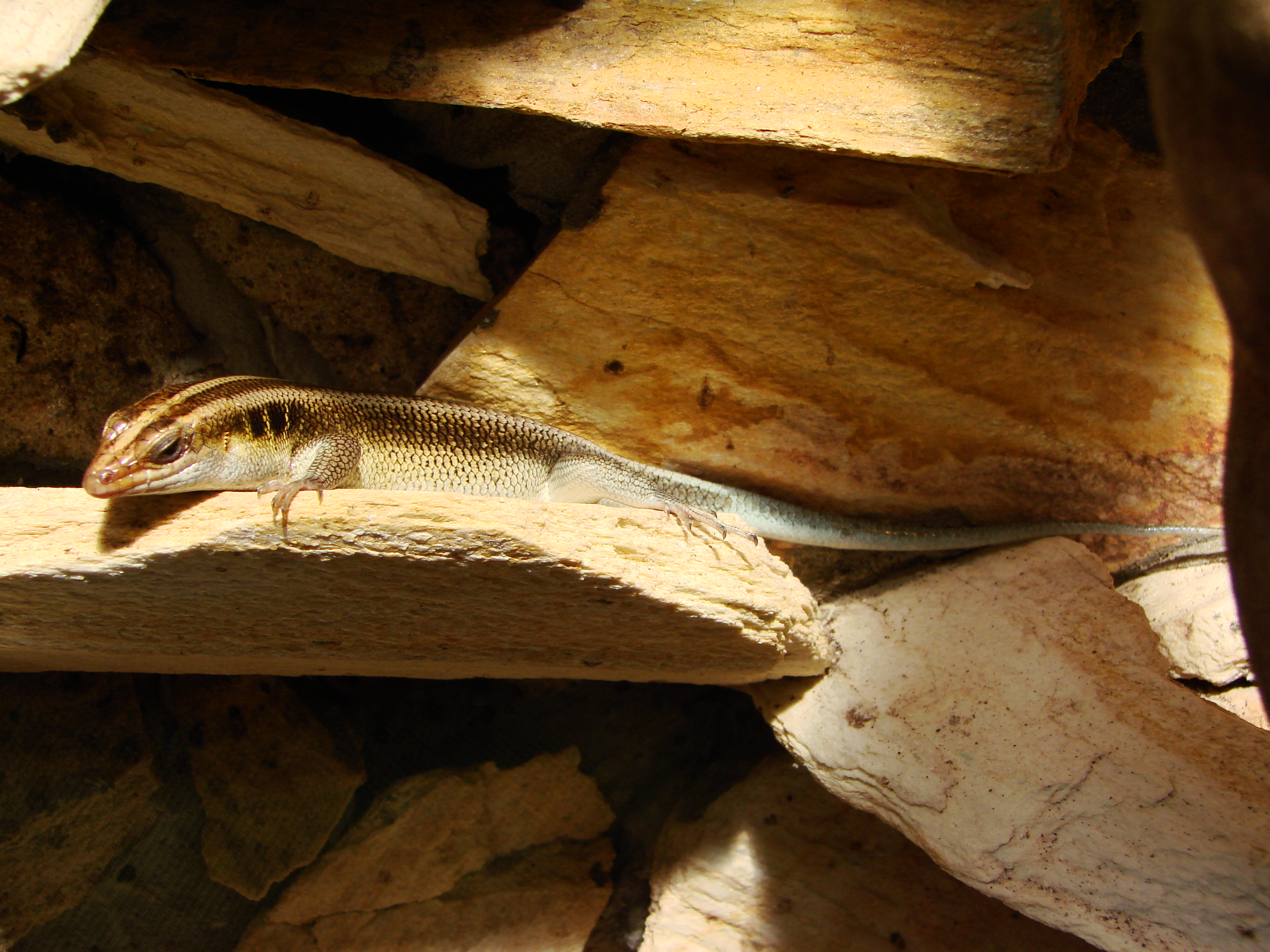 Picture taken in the zoo of Wrocław (Poland): Mabuya quadricarinata (Boulenger, 1887)